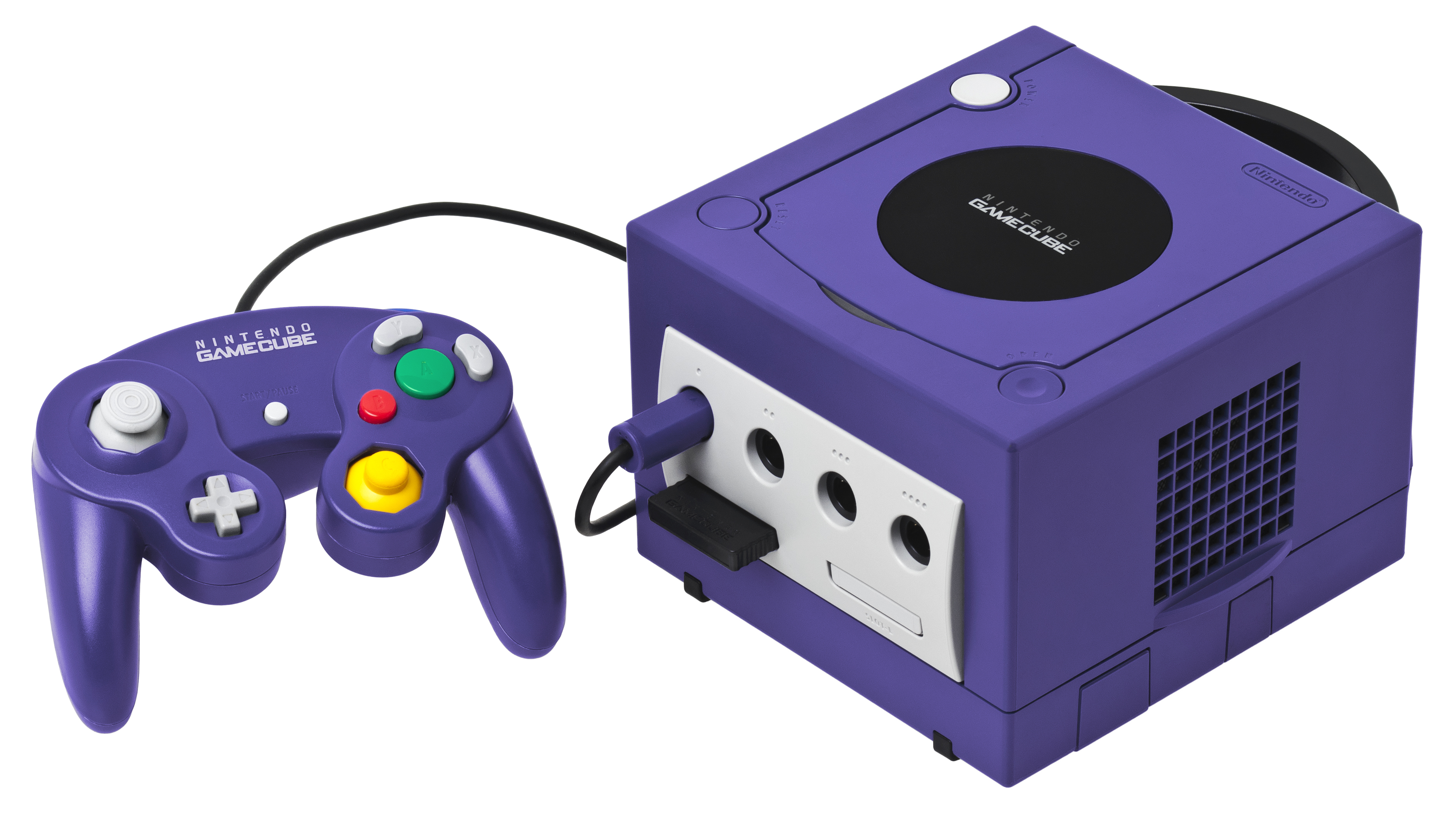 A Nintendo GameCube console shown with memory card and a standard controller. This is the JPG version.